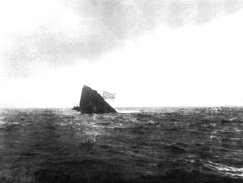 USN photo of USS Maine (ACR-1) being sunk in 600 fathoms in the Atlantic on 16 March 1912, after being raised and towed from Havana harbor.